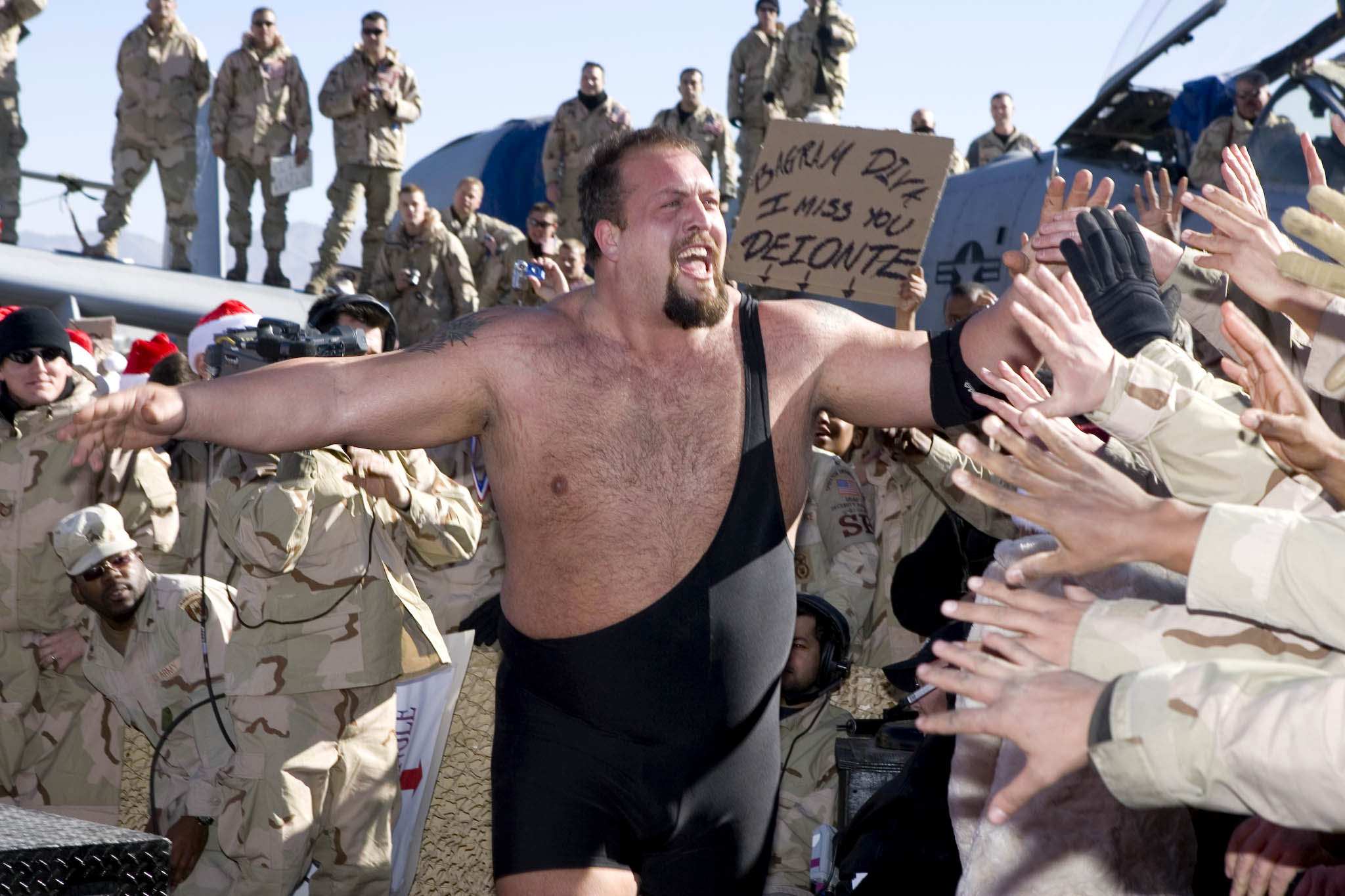 Wrestler Paul Wight, aka The Big Show